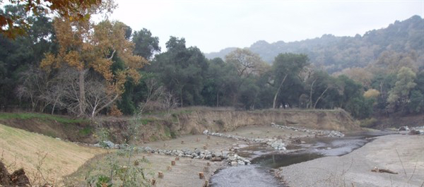 Restoration project in lower Arroyo de la Laguna to re-establish riparian terrace in eroded channel.